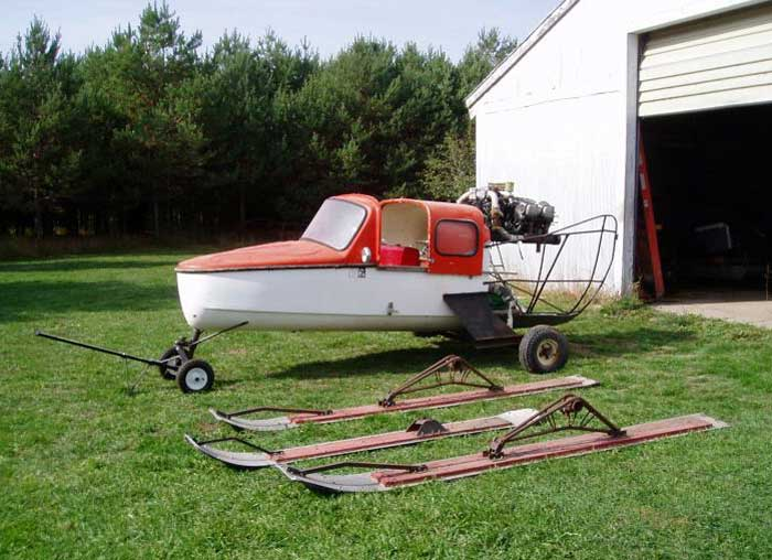 Polaris Snowplane, 1963, one of 25 built. Polaris marketed these snowplanes but did not build them, they were made by Trail-A-Sled (Scorpion snowmobiles) in Crosby, MN.